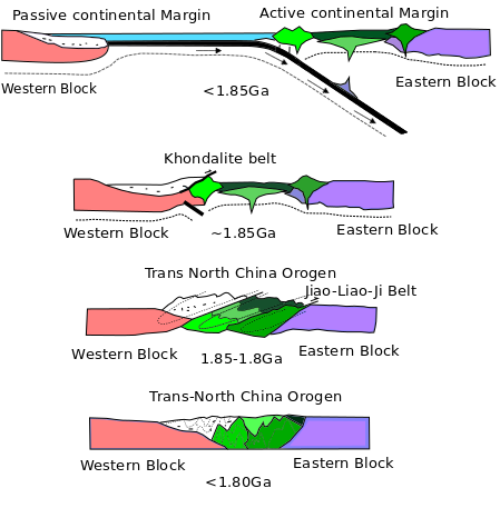 cross section of North China Craton